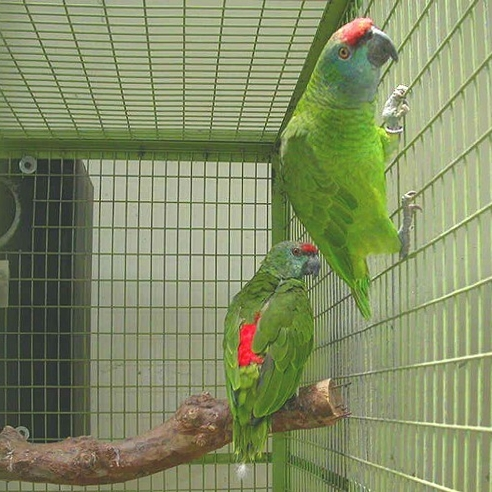 Festive Amazon; two parrots in a cage with a nesting box.